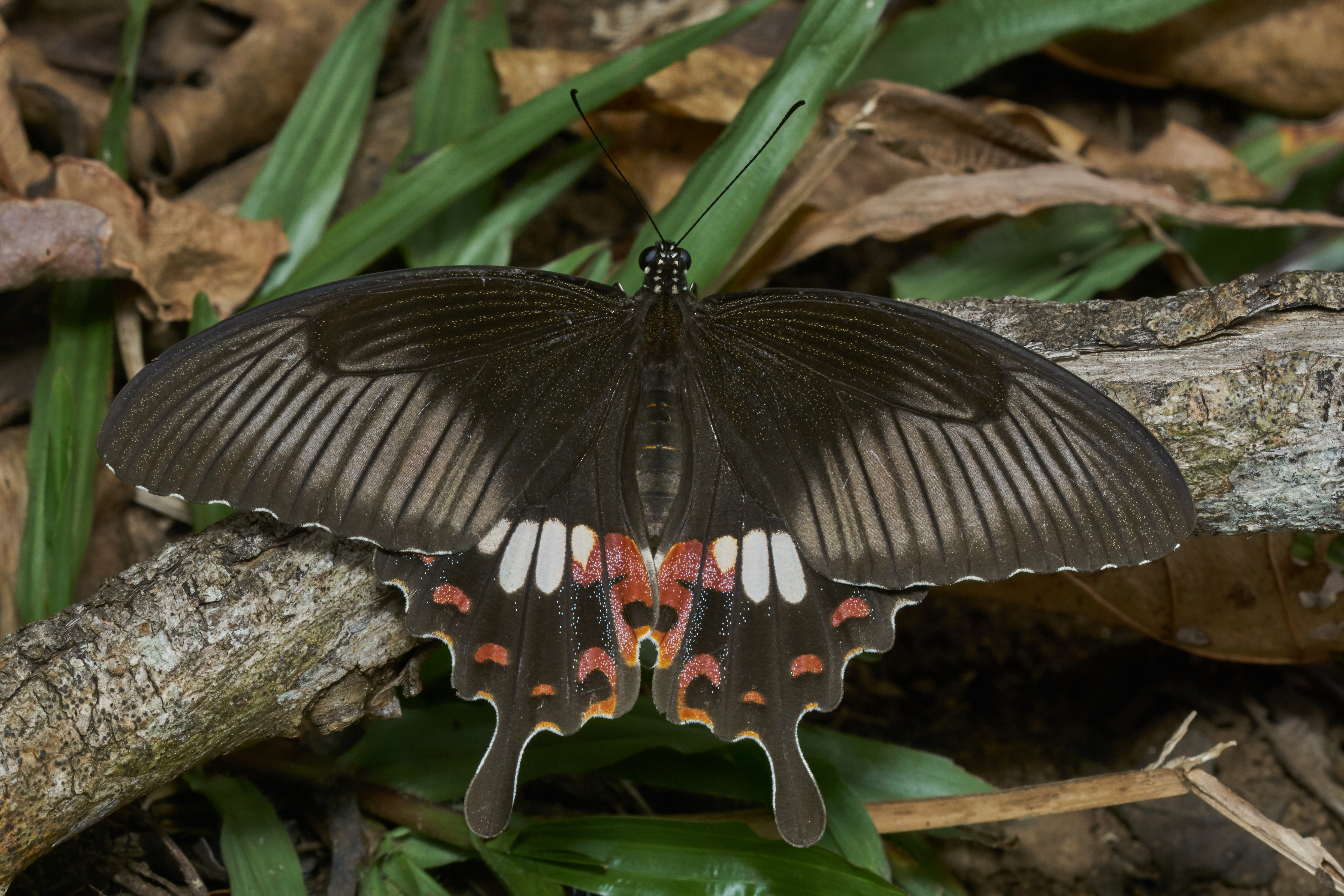 Papilio polytes, Common Mormon, is a common species of swallowtail butterfly widely distributed across Asia. Here the female is in the form stichius, mimicking unpalatable Pachliopta aristolochiae.